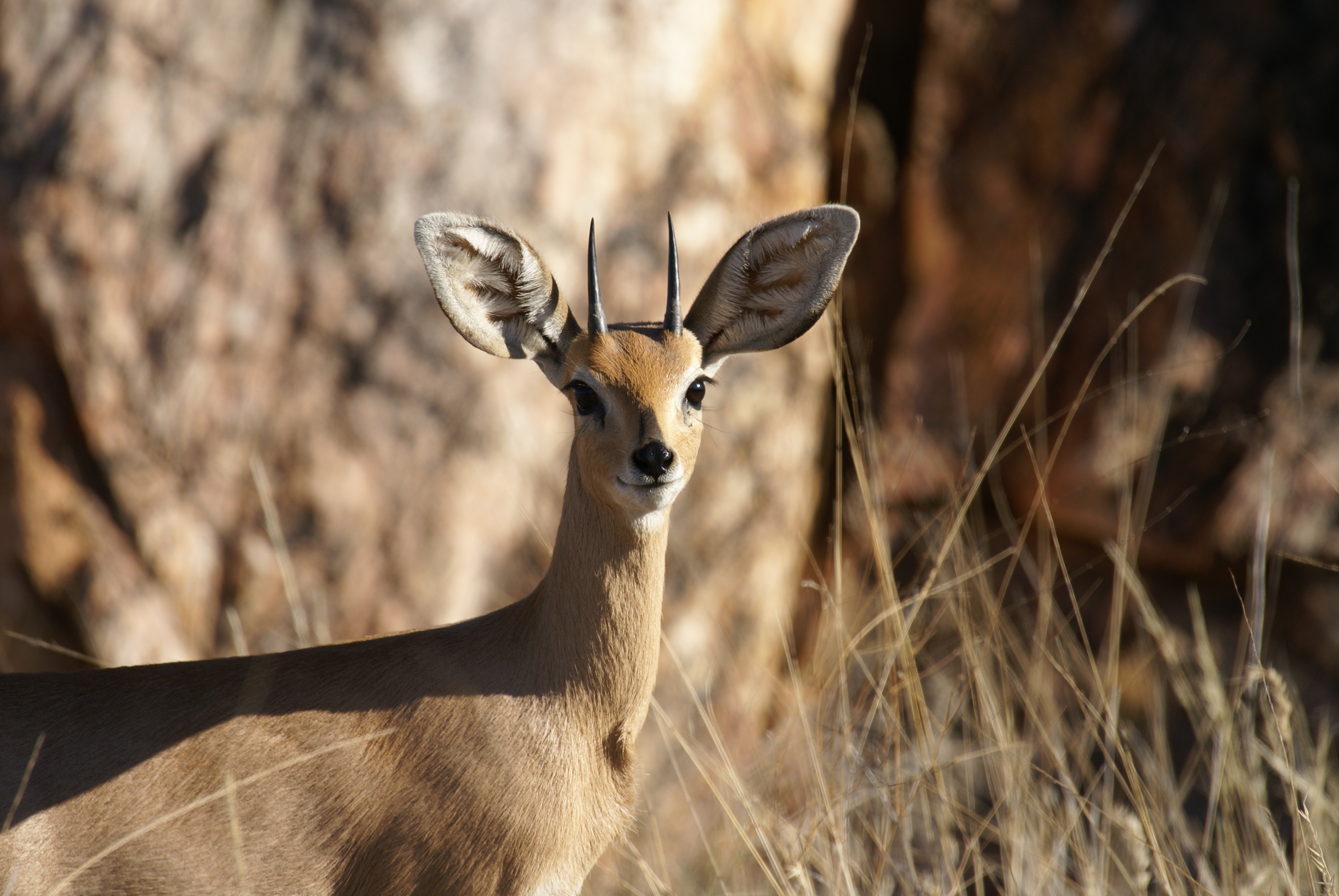 Raphicerus campestris detail photo of the head